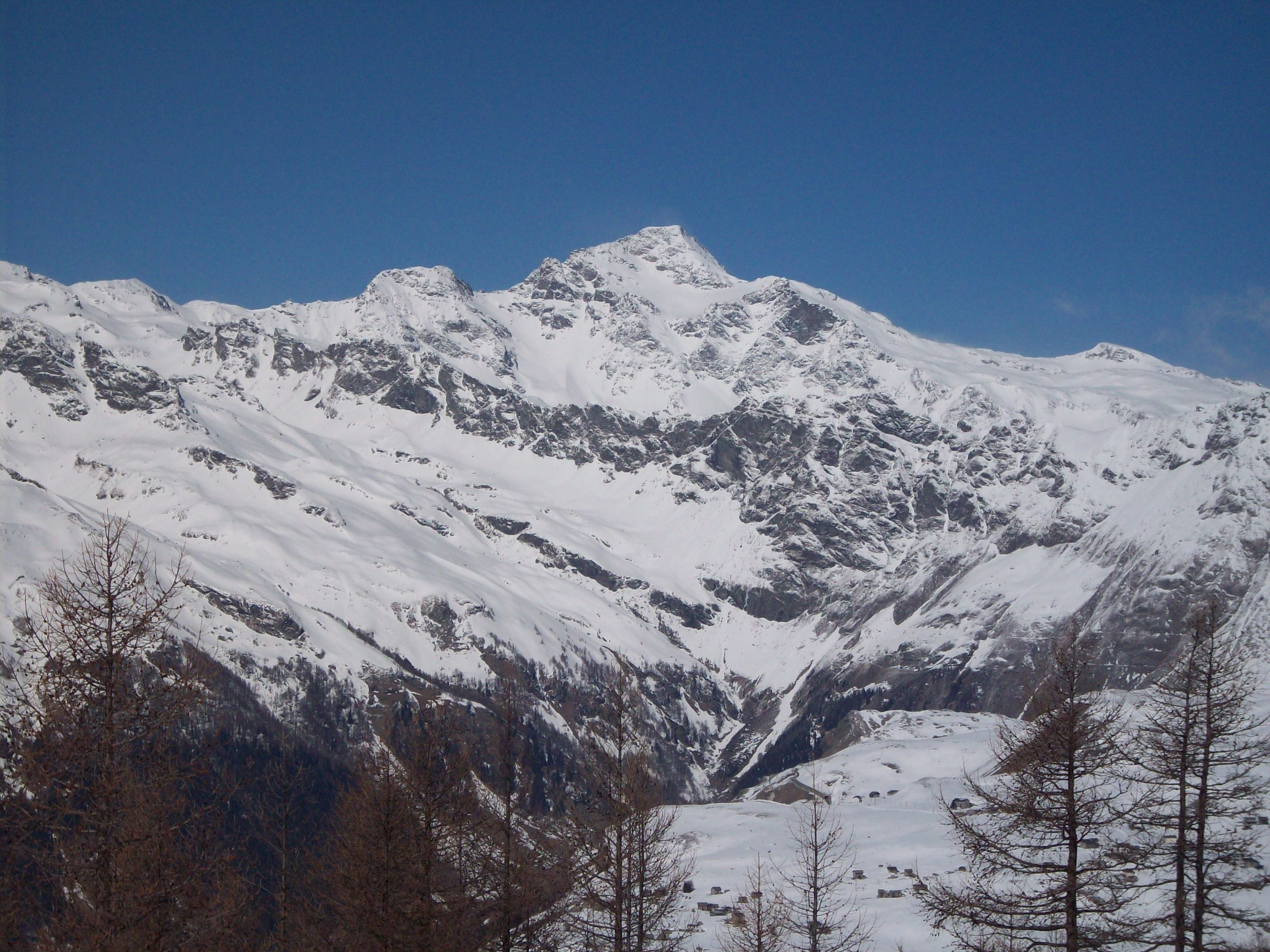 Pizzo Tambo in the Late Winter